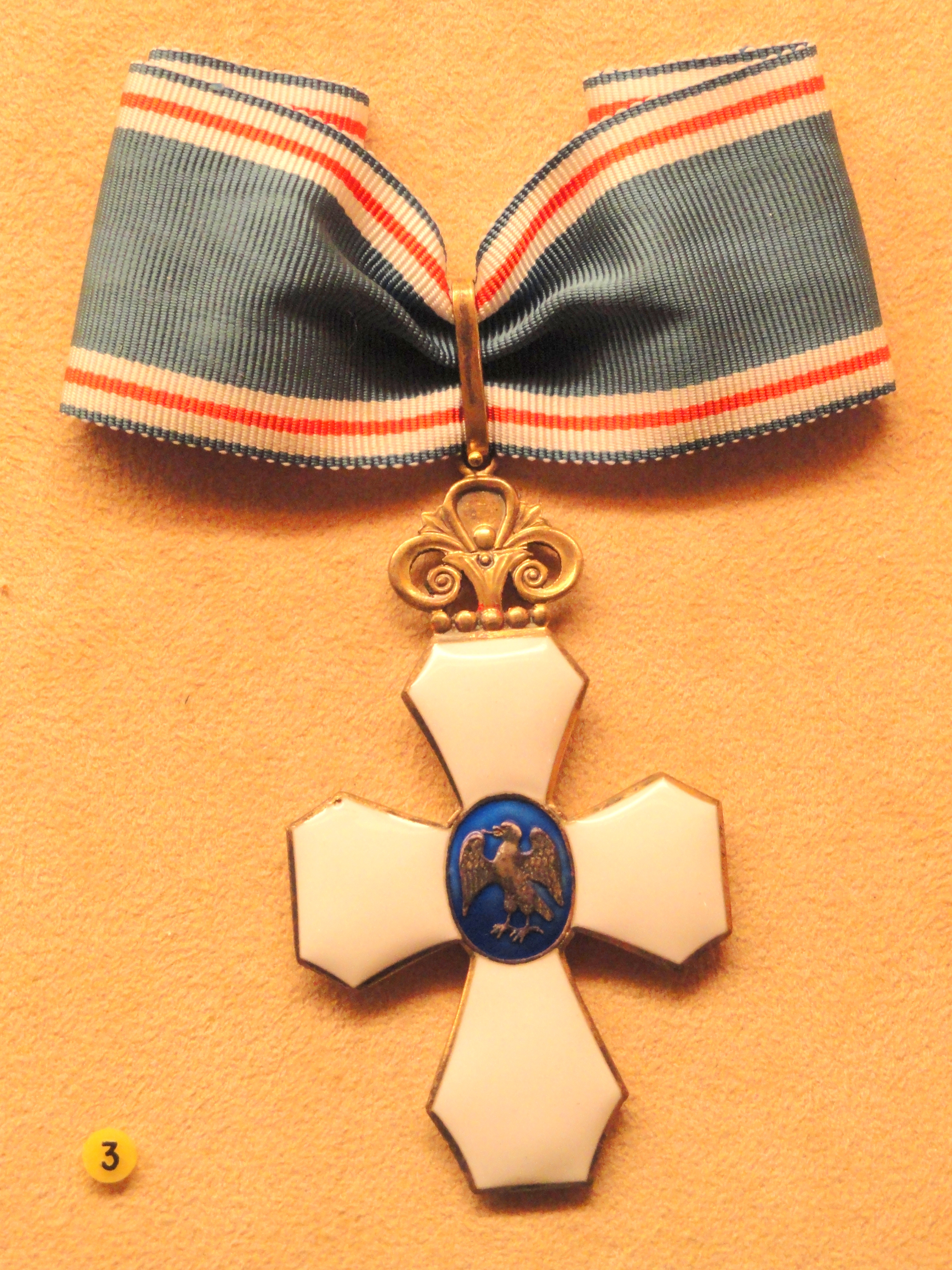 Award in the National Museum of Finland, Helsinki, Finland. This artwork is in the public domain because the artist(s) died more than 70 years ago.